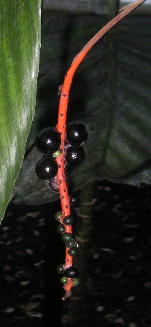 Chamaedorea geonomiformis, Fruits, at Kew Gardens, London, UK